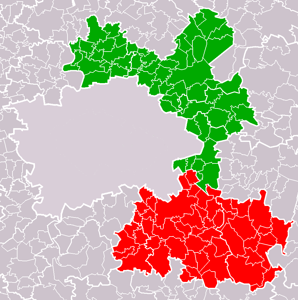 Administrative areas of municipalities with extended competence within Prague-East District as of January 1, 2007: MEC Brandýs nad Labem-Stará Boleslav MEC Říčany